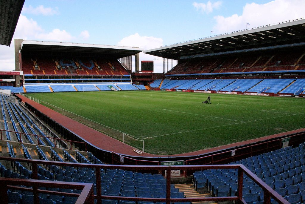 Taken at the home of Aston Villa FC.